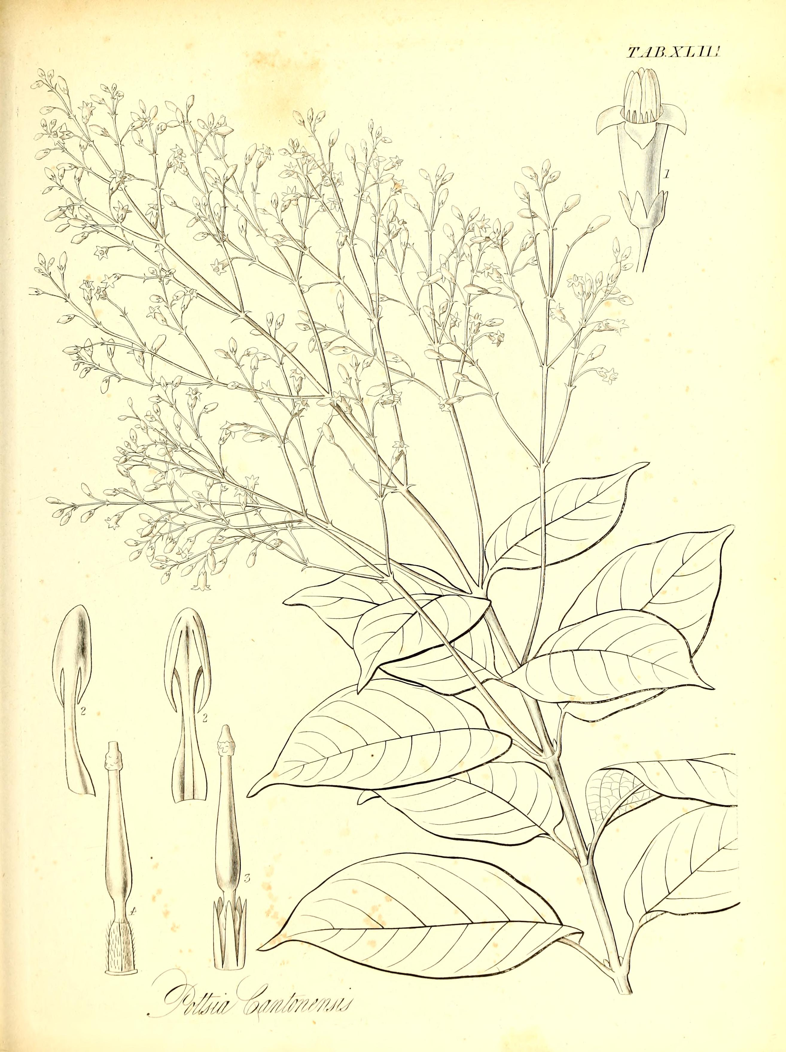 Title: The botany of Captain Beechey's voyage; comprising an acount of the plants collected by Messrs. Lay and Collie, and other officers of the expedition, during the voyage to the Pacific and Behring's Strait, performed in His Majesty's ship Blossom, under the command of Captain F. W. Beechey ... in the years 1825, 26, 27, and 28 Year: 1841 (1840s) Authors: Hooker, William Jackson, Sir, 1785-1865; Arnott, George Arnott Walker, 1799-1868, joint author; Beechey, Frederick William, 1796-1856 Subjects: Blossom (Ship); Botany; Botany; Botany Publisher: London, H. G. Bohn Text Appearing Before Image: T^LB.XLILI Text Appearing After Image: '